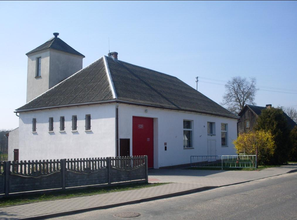 Fire Station in Minikowo